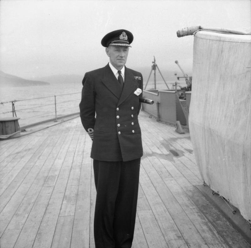 Personalities: Captain J C Leach, commanding officer of HMS Prince of Wales and Admiral Phillips' Flag Captain. Prince of Wales was the battleship which conveyed Winston Churchill across the Atlantic for his historic meeting with President Roosevelt. She was sunk by Japanese torpedoes on 10 December 1941.